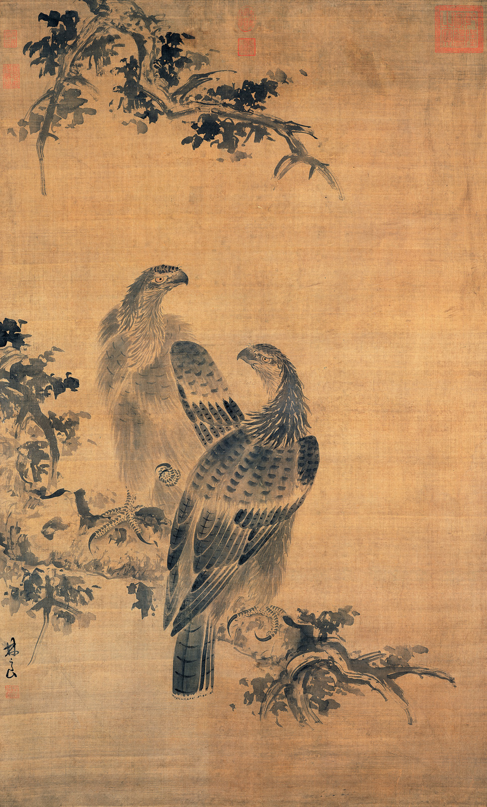 Eagles, hanging scroll, light color on silk, 133.4 x 50.5 cm. Located at the National Palace Museum.